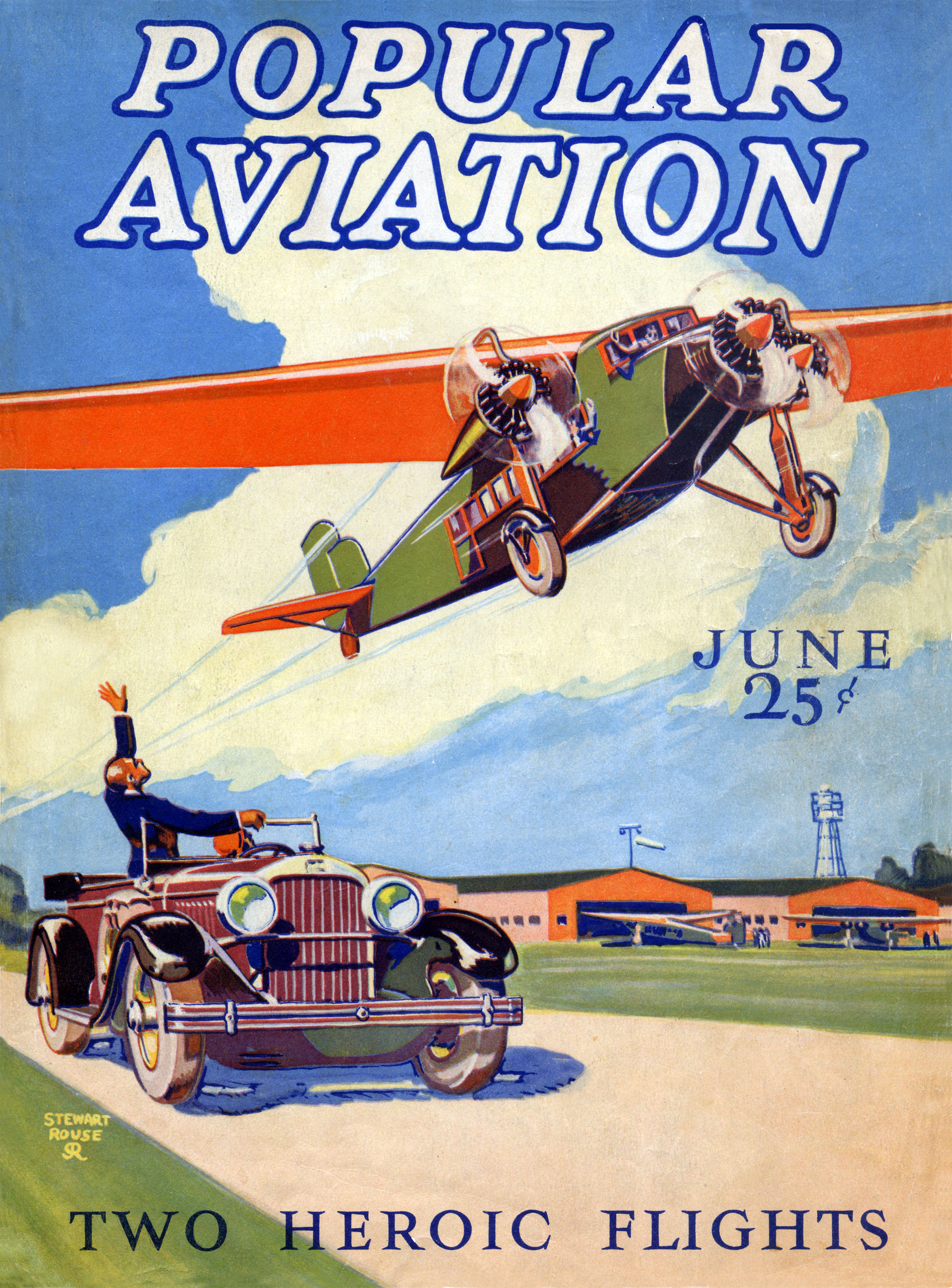 Popular Aviation; June 1928; Volume 2 Number 6; Popular Aviation Publishing Company; 608 Dearborn Street, Chicago, Illinois. Editor: Harley W Mitchell; Business Manager: C. R. Borkland; Cover art: Stewart Rouse The cover mentions two heroic flights. One was a flight from Barrow, Alaska, across the Arctic, to an island north of Finland. The other was a flight from Dublin, Ireland to an island off Newfoundland. The original target was New York City. This 8.5 by 11.5 inch (21.6 by 29.2 cm) magazine has 98 pages. The first issue of Popular Aviation was August 1927. The magazine's title was changed to Aeronautics in June 1929 then changed back to Popular Aviation in July 1930. The publishing company's name became Aeronautical Publications, Inc. in June 1929 then Ziff-Davis Publishing Company in April 1936. The direct successor magazine, Flying, is currently published by Hachette Filipacchi Media.